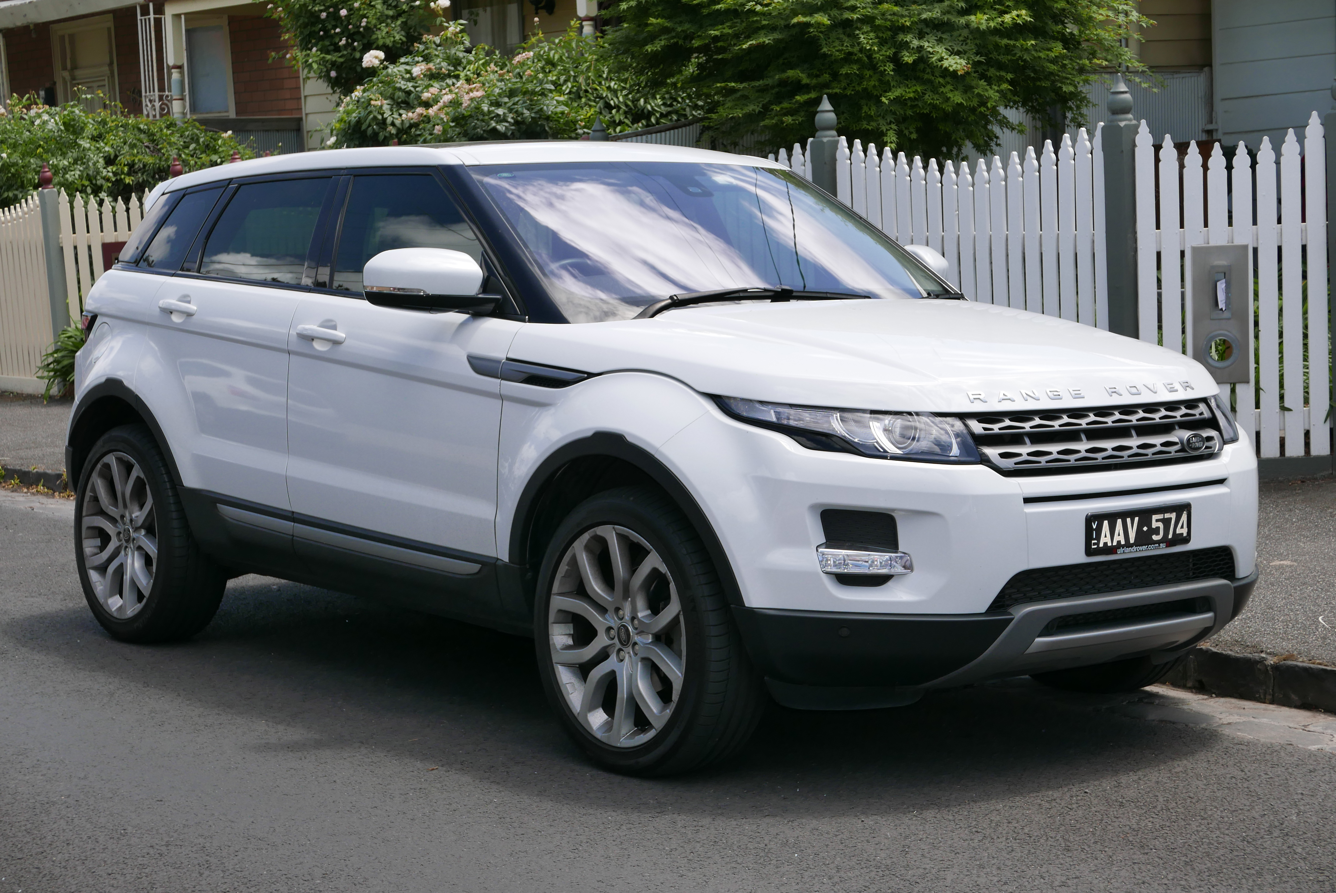 2013 Land Rover Range Rover Evoque (L538 MY13.5) SD4 Pure Tech 4WD 5-door wagon. Photographed in Brunswick, Victoria, Australia. Vehicle registration enquiry results Jurisdiction Victoria Registration AAV574 Chassis code SALVA2AE2DH844419 Engine code DZ784166284224DT Compliance date 2013-11 Year of manufacture 2013